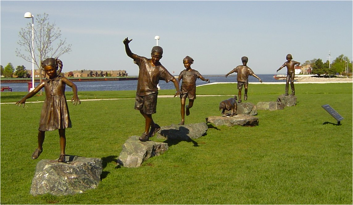 Sculptor called "Follow the Leader" taken at the Ludington (MI) harbor in 2004.